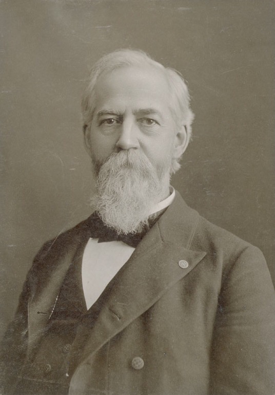 William P. Black. Medal of Honor Recipient (Civil War)